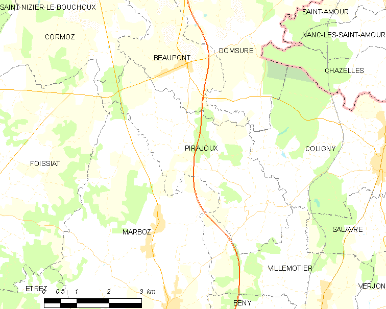 Map of French commune: Pirajoux Map commune FR insee code 01296.png